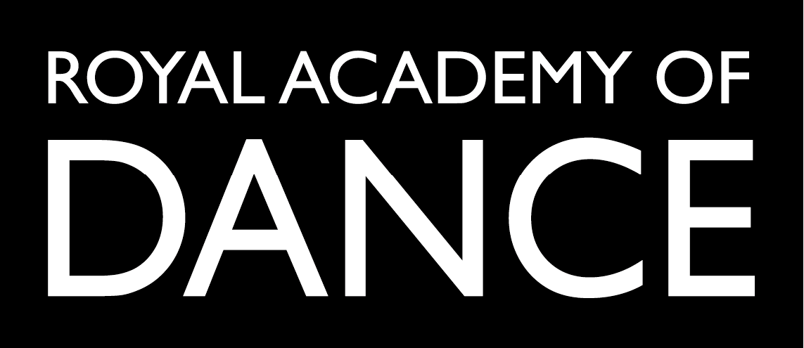 Logo of the Royal Academy of Dance